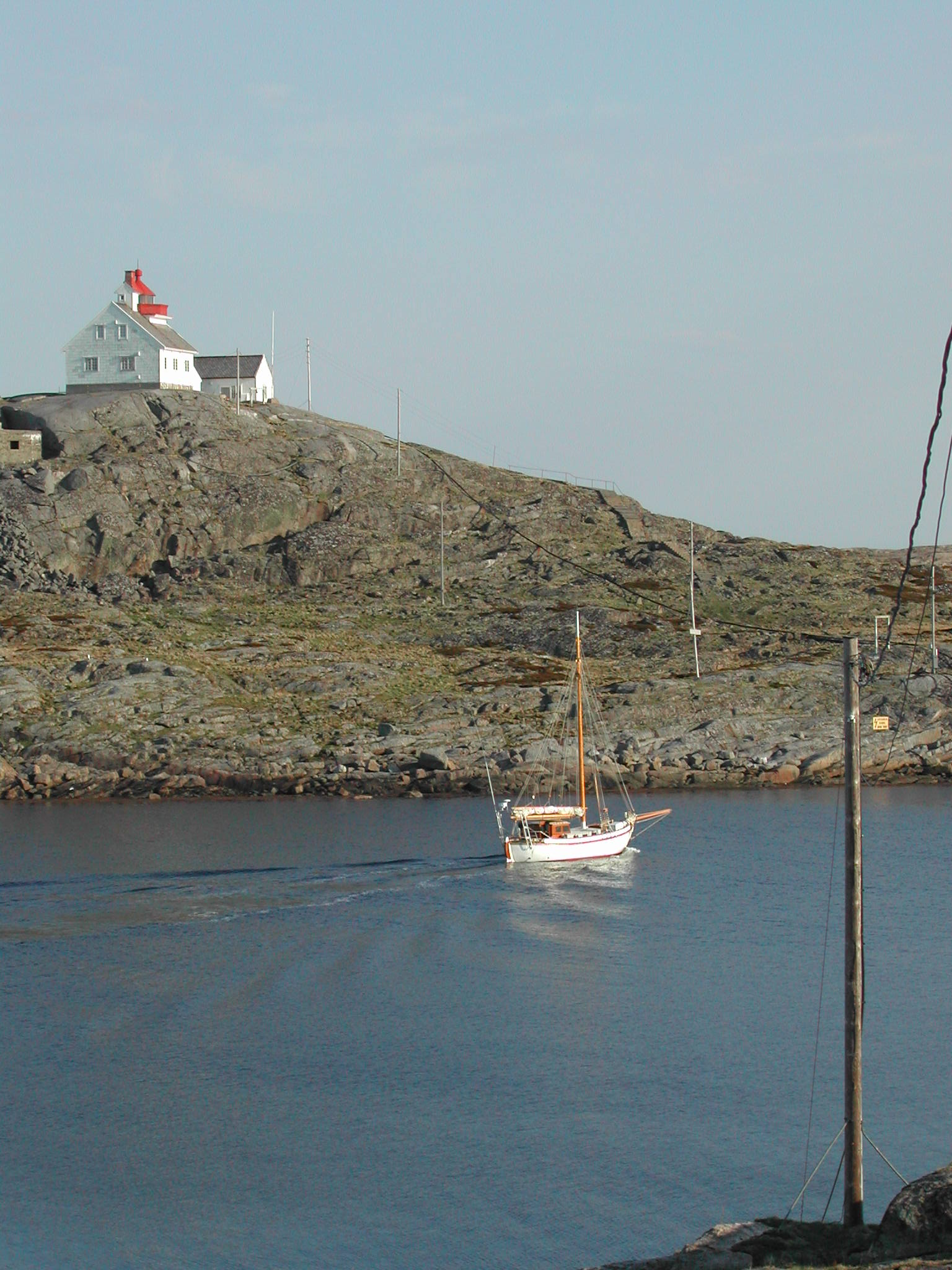 Myken fyr with sailboat Josephine